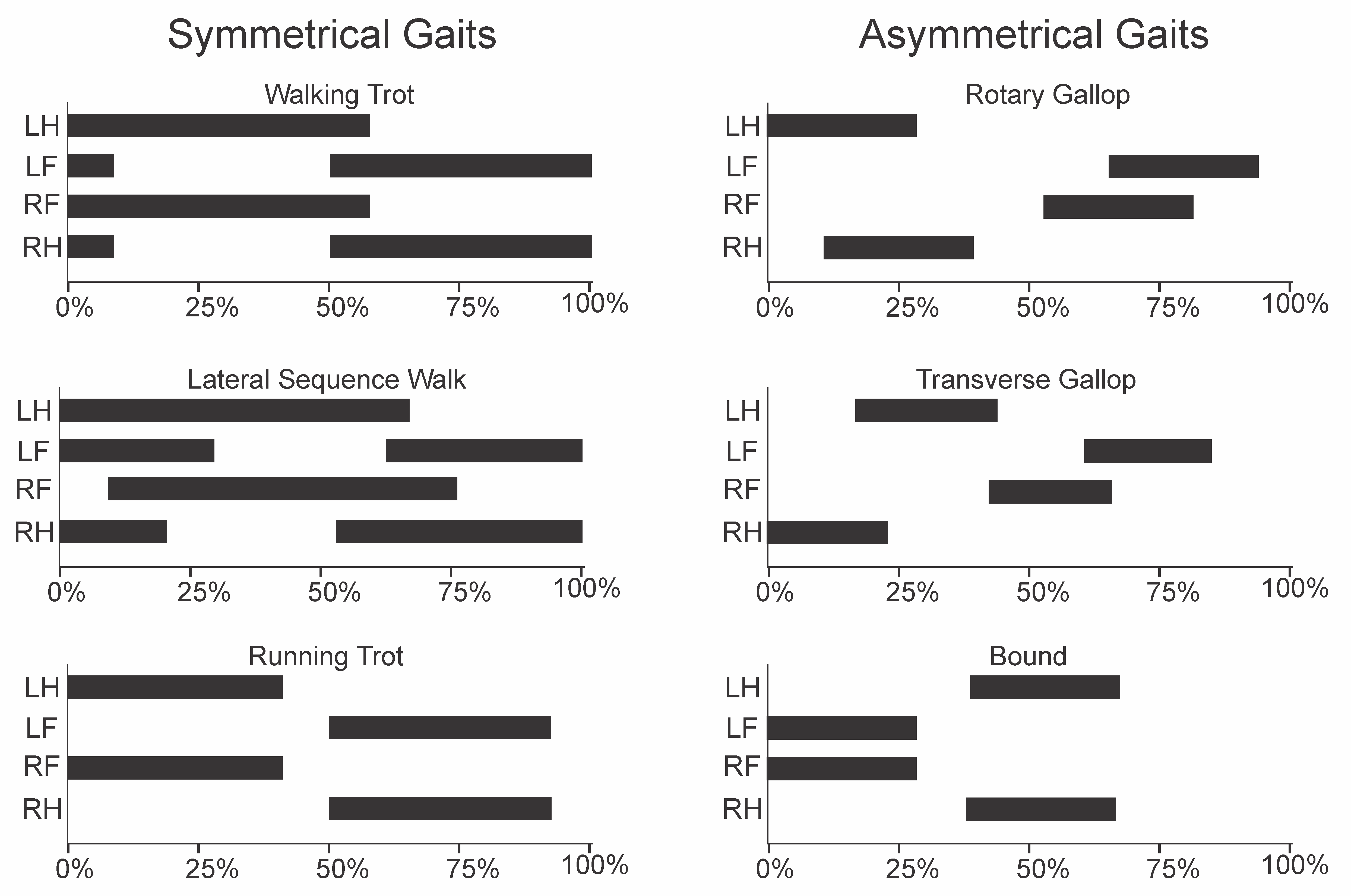 Hildebrand Style gait graphs, trying to fix problems of prior version